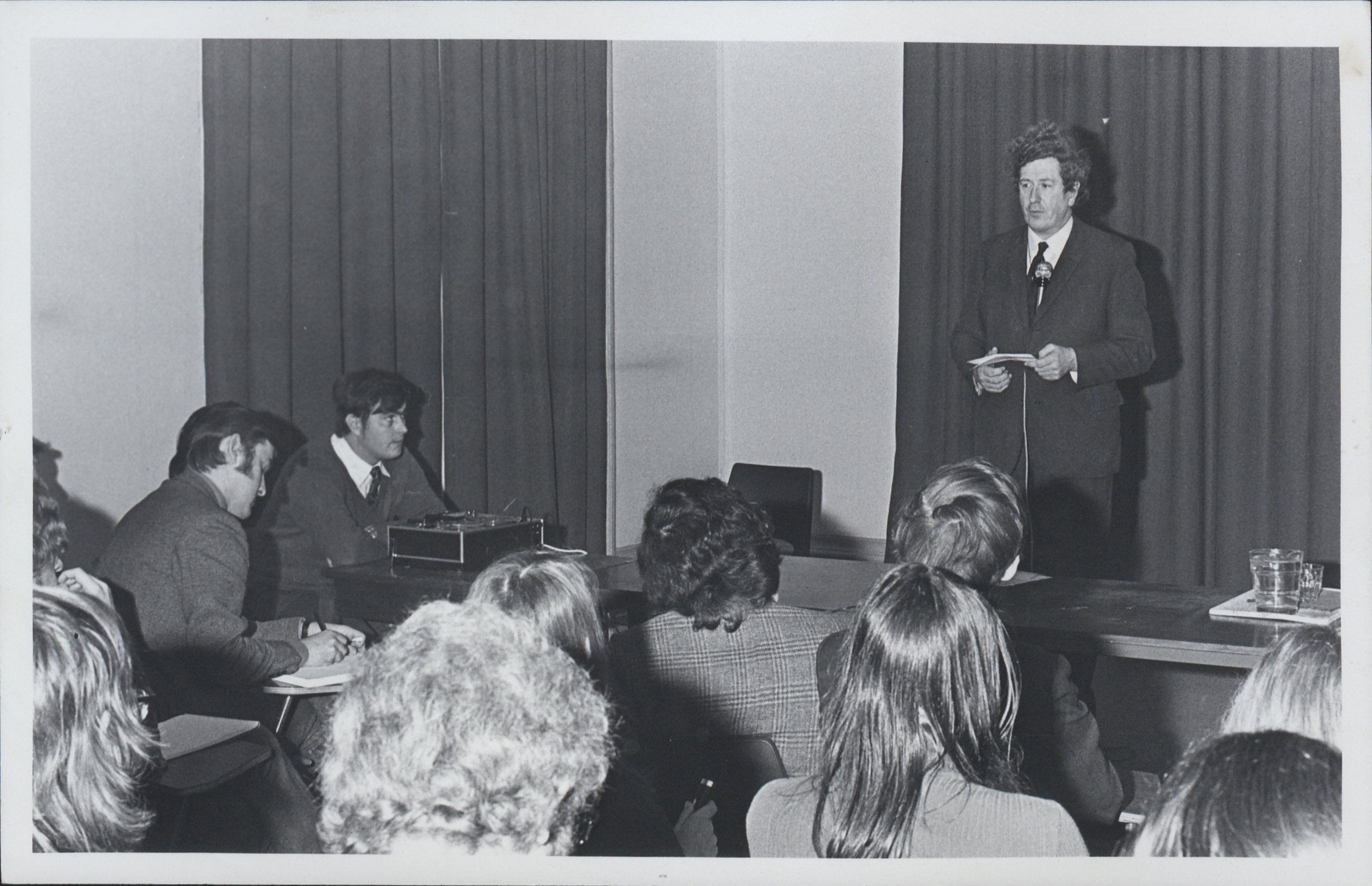 Ref C02/13/08/09 Photograph of Dr Garret Fitzgerald, TD who visited the campus as part of the Visiting Lecturer Series, delivering his speech: 'Politics: An Agent for Change or a Prop to the Status Quo'. Featured in 'Bulletin', Vol.2 no. 1, Jan-Feb 1973.